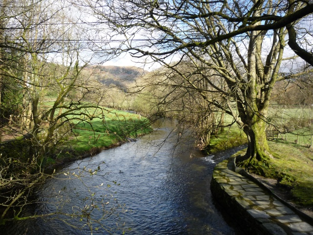 Looking upstream on the Rothay The Rothay is the outflow from Rydal water and enters Windermere about a mile downstream. The tributary on the right is Scandale beck flowing off the Scandale fells.